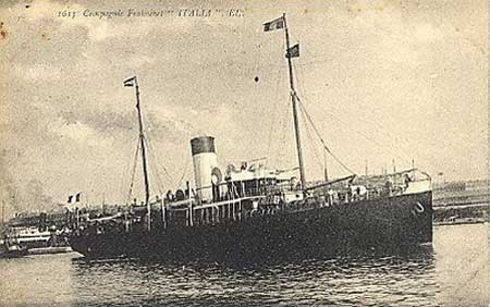 Postcard from the French steamer SS Italia from 1904